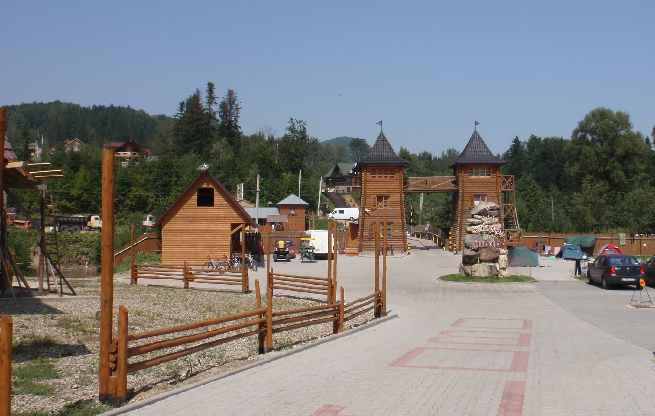 Migovo ski and tourist center